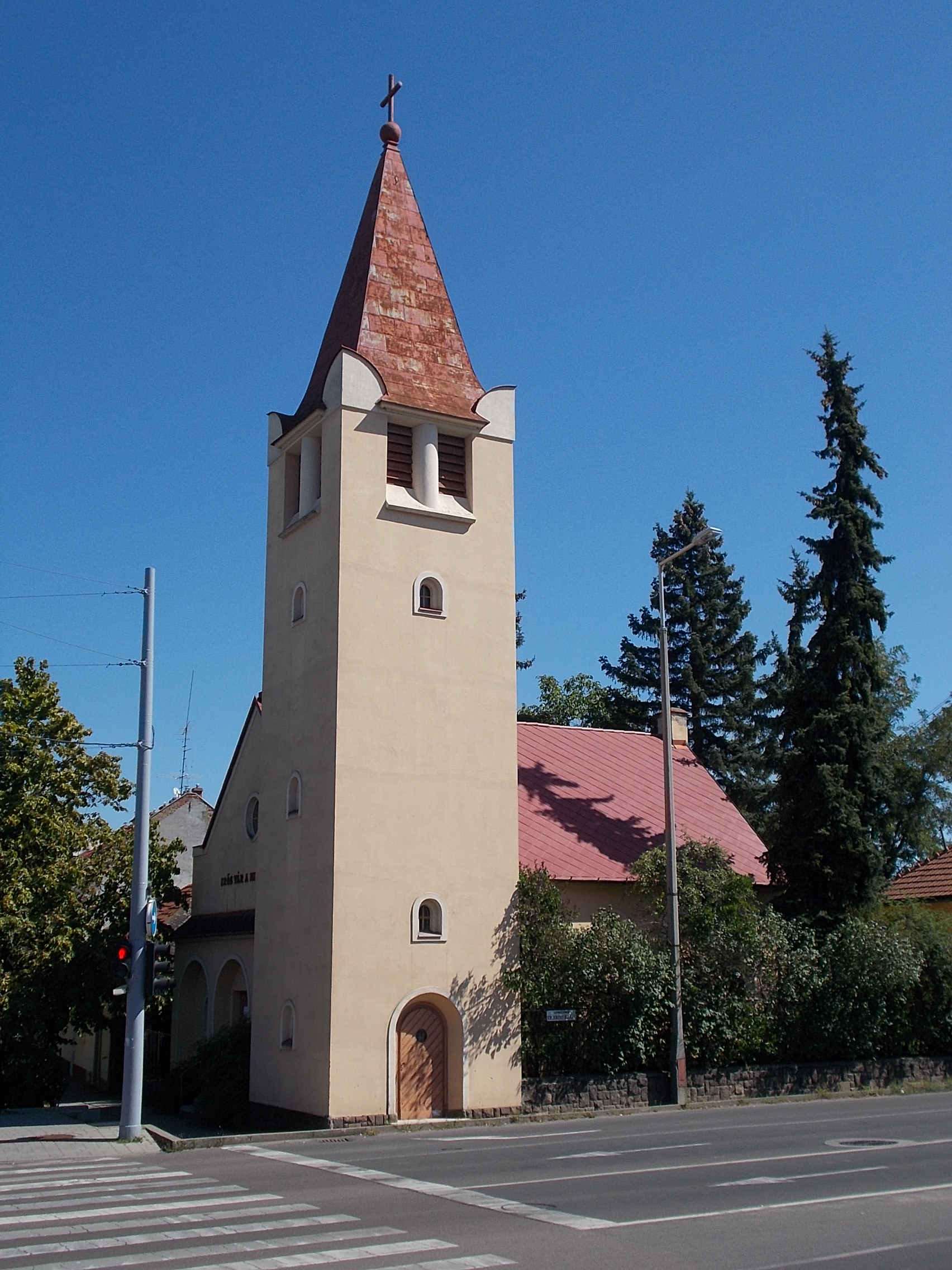 Lutheran church (1940). - Törvényház Street, Eger, Heves County, Hungary.